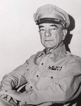 General Daniel Isom Sultan, (December 9, 1885 – January 14, 1947) was an American General during World War II. He fought in the China-Burma-India theater at the last half of the war.